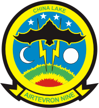 VX-9 Vampires logo.